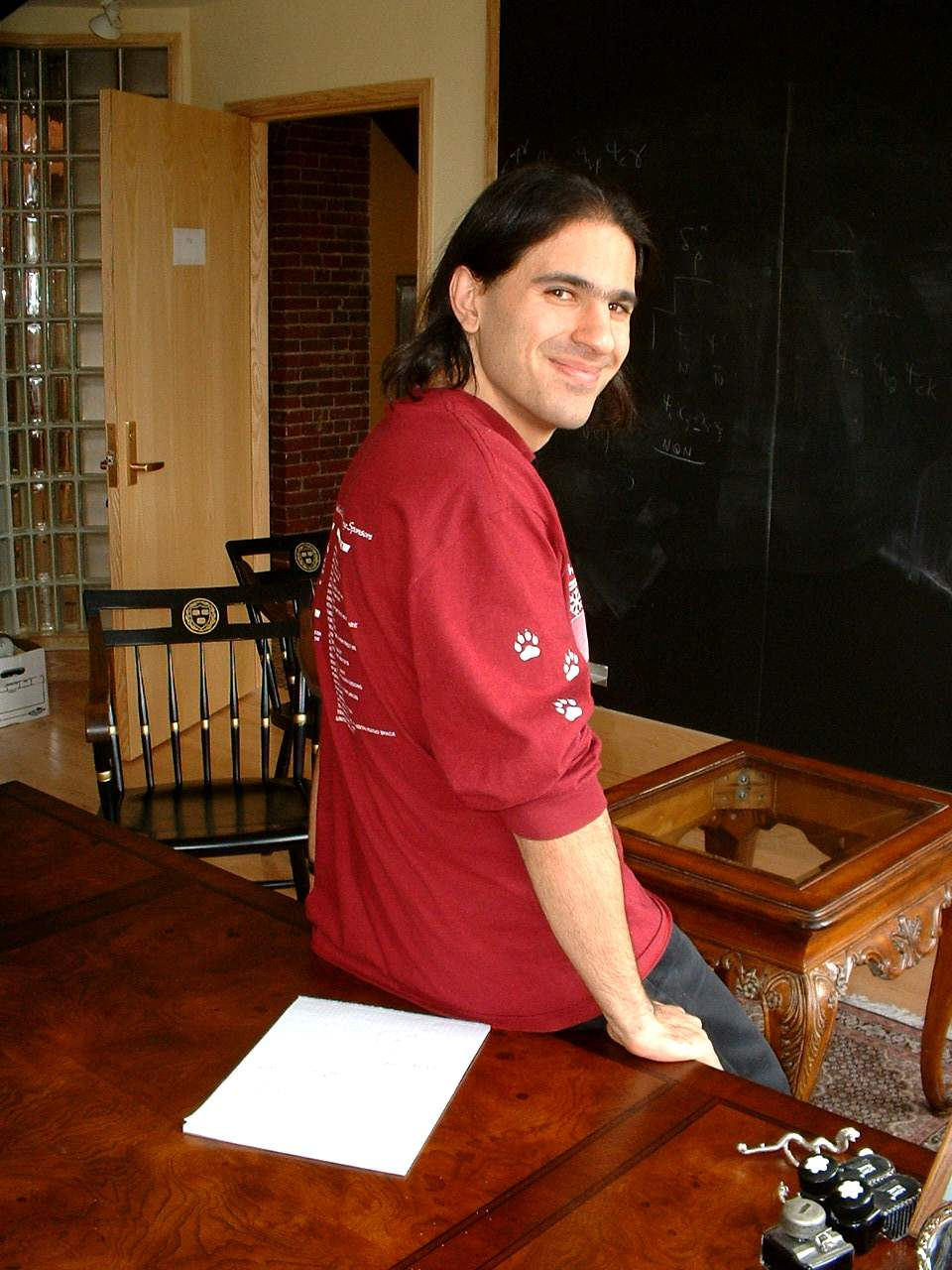 Nima Arkani-Hamed in his office at Harvard